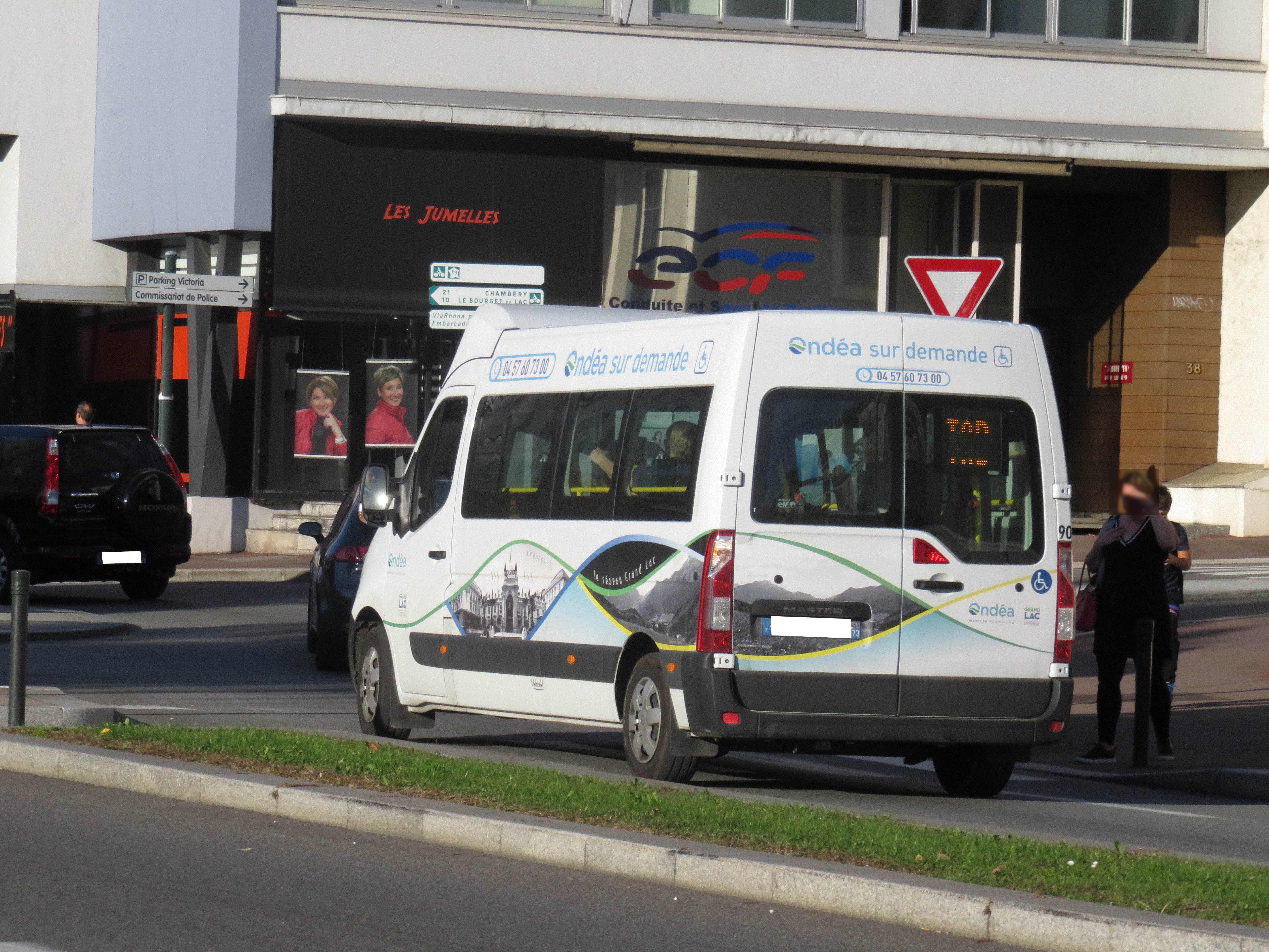 A Renault Master III (n°90 of the French agglomeration community Grand Lac) running on Ondéa’s DRT service, in the Boulevard Président Wilson (Aix-les-Bains, France) — on October 17, 2017.